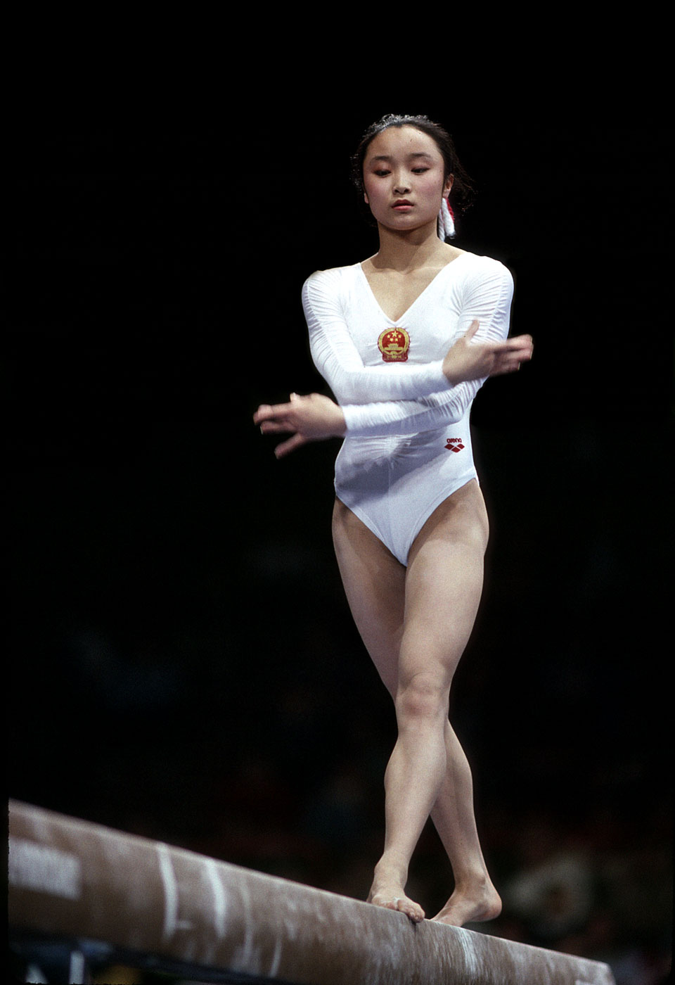 Fan DI (CHN) Paris-Bercy 23-25/03/1990